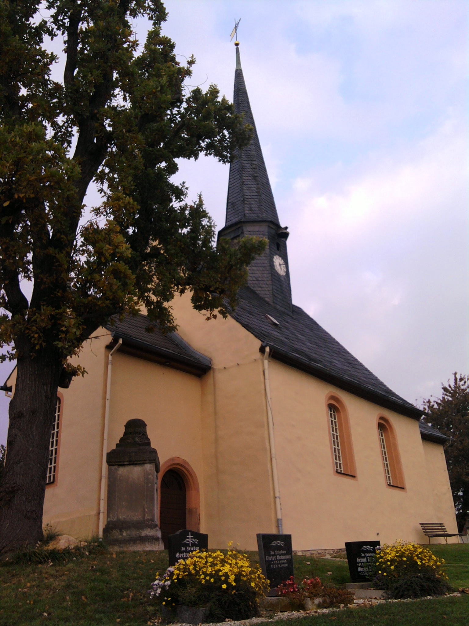 Church in Göpfersdorf near Altenburg/Thuringia in Germany